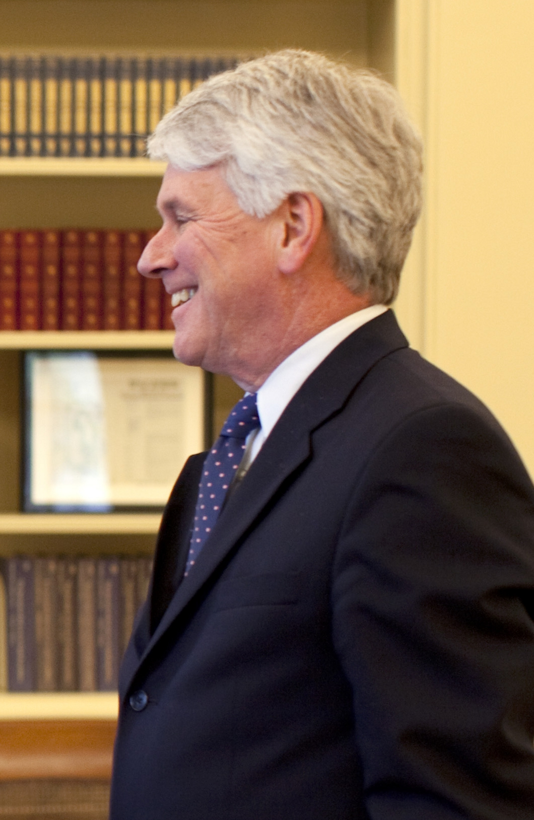 White House Counsel Greg Craig